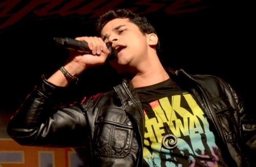 picture